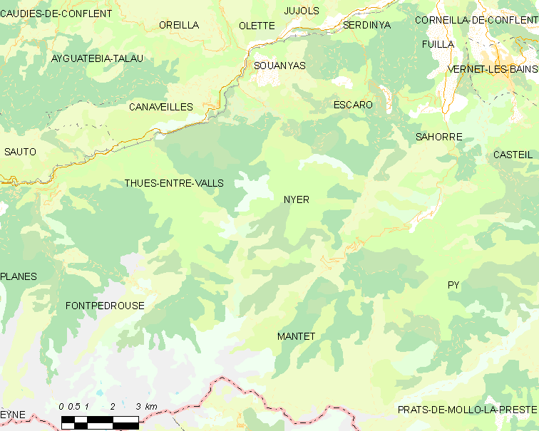 Map of French municipality